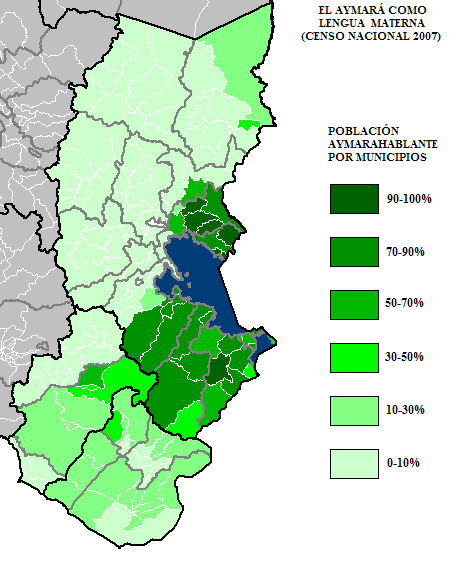 A map of the distribution of Aymara. Limited to three southern departments with compact Aymara population: Puno, Moquegua, Tacna.